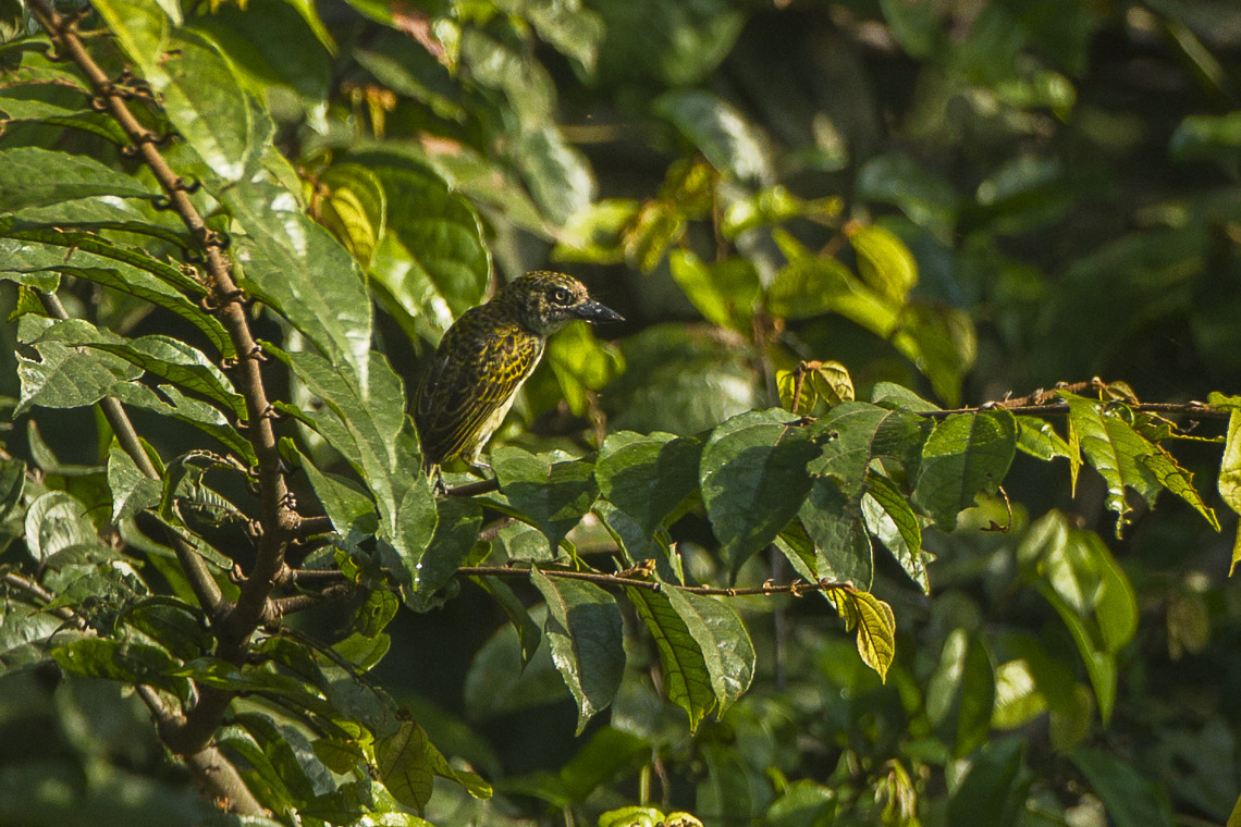 A Speckled Tinkerbird (Pogoniulus scolopaceus) in the Kakum National Park (Ghana)